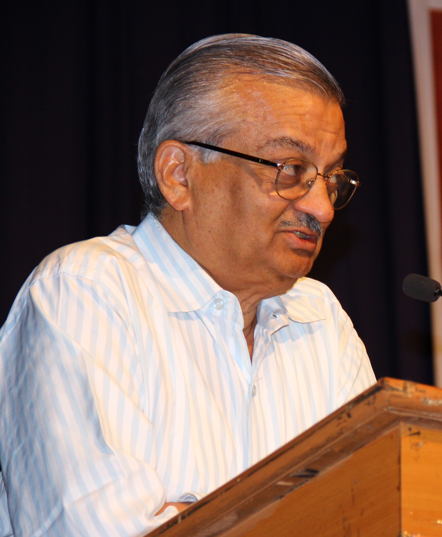 Image extracted from the original using GIMP 2.6.10.